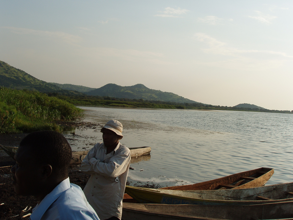 Lake Kyoga, Uganda